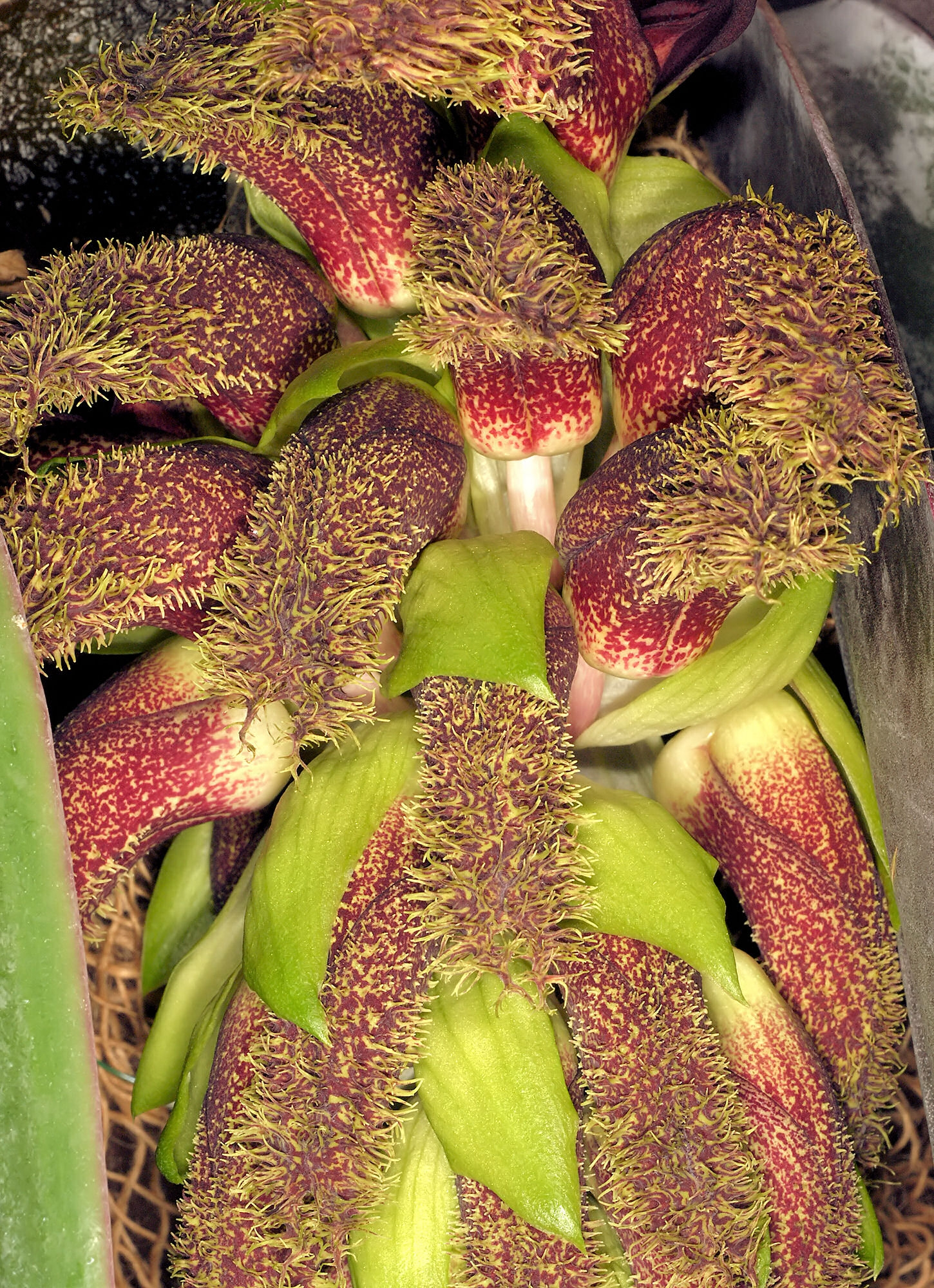 Bulbophyllum fletcherianum